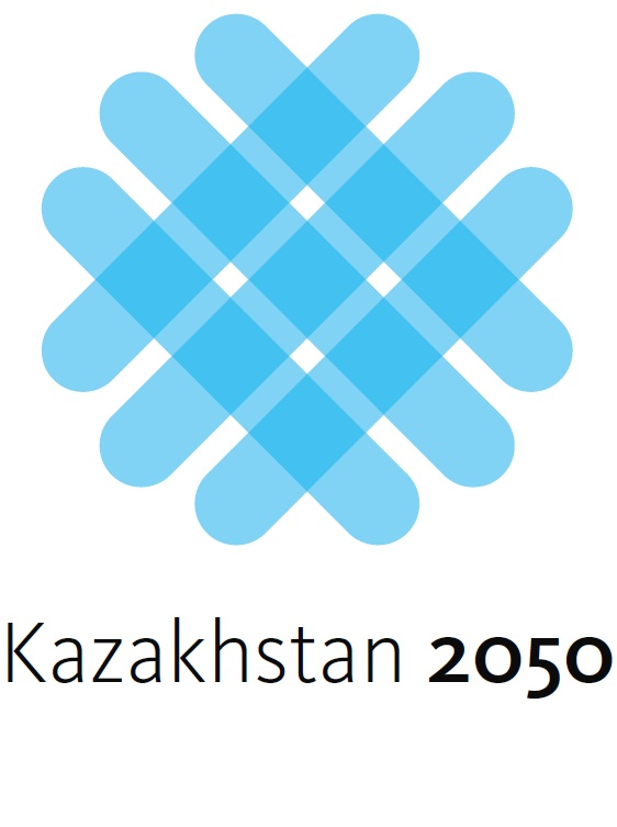 Logo for the Kazakhstan 2050 Strategy national policy plan.